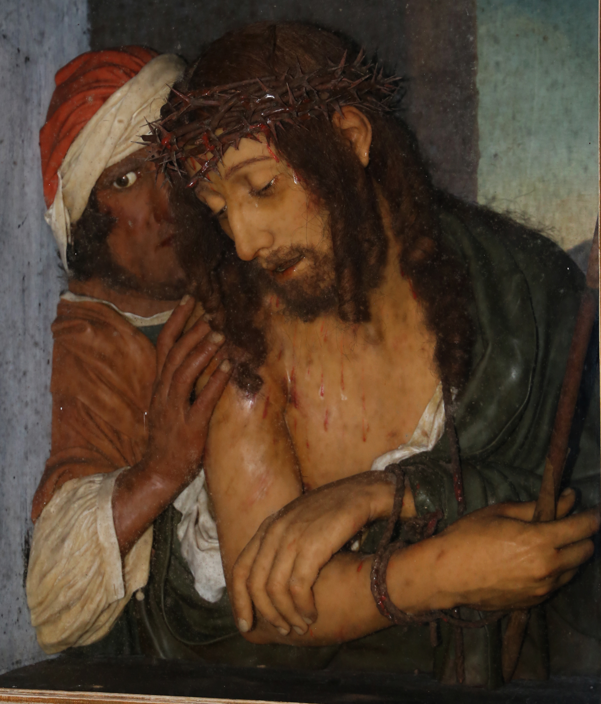 San Marcello (San Marcello Pistoiese)